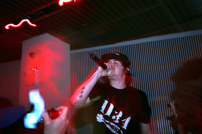 Machine of Team Facelift wearing 1134NYC tee shirt.